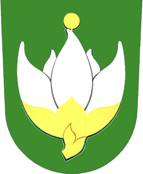 Municipal coat of arms of Vřesina village, Ostrava-City District, Czech Republic.